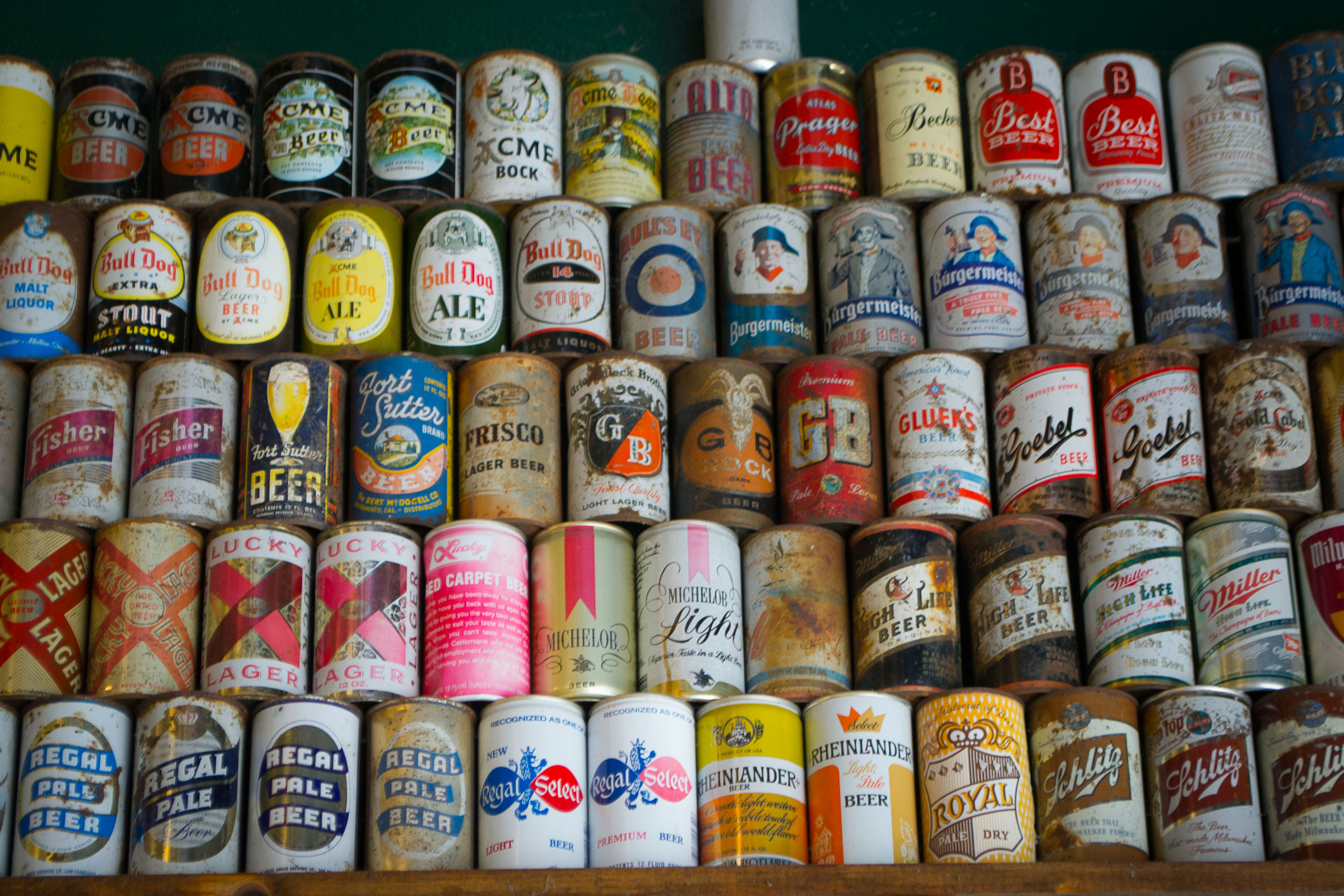 A collection of rare beer cans